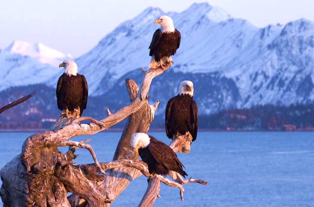 Bald Eagles Homer Alaska USA. Bald Eagles Homer Alaska USA.